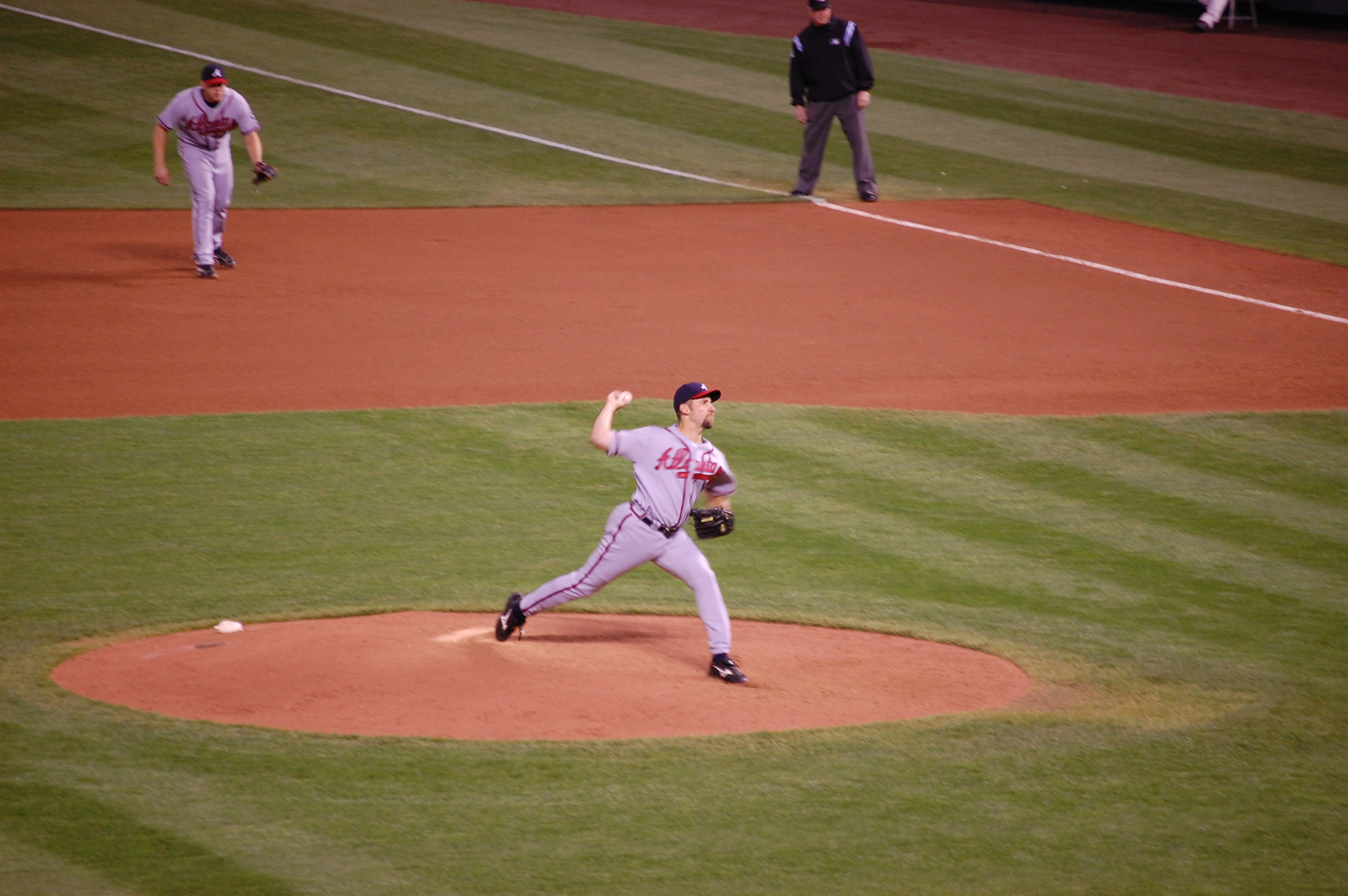 own work; release under gfdl 05:27, 30 April 2007 . . Onetwo1 . . 3008×2000 (1.47 MB)